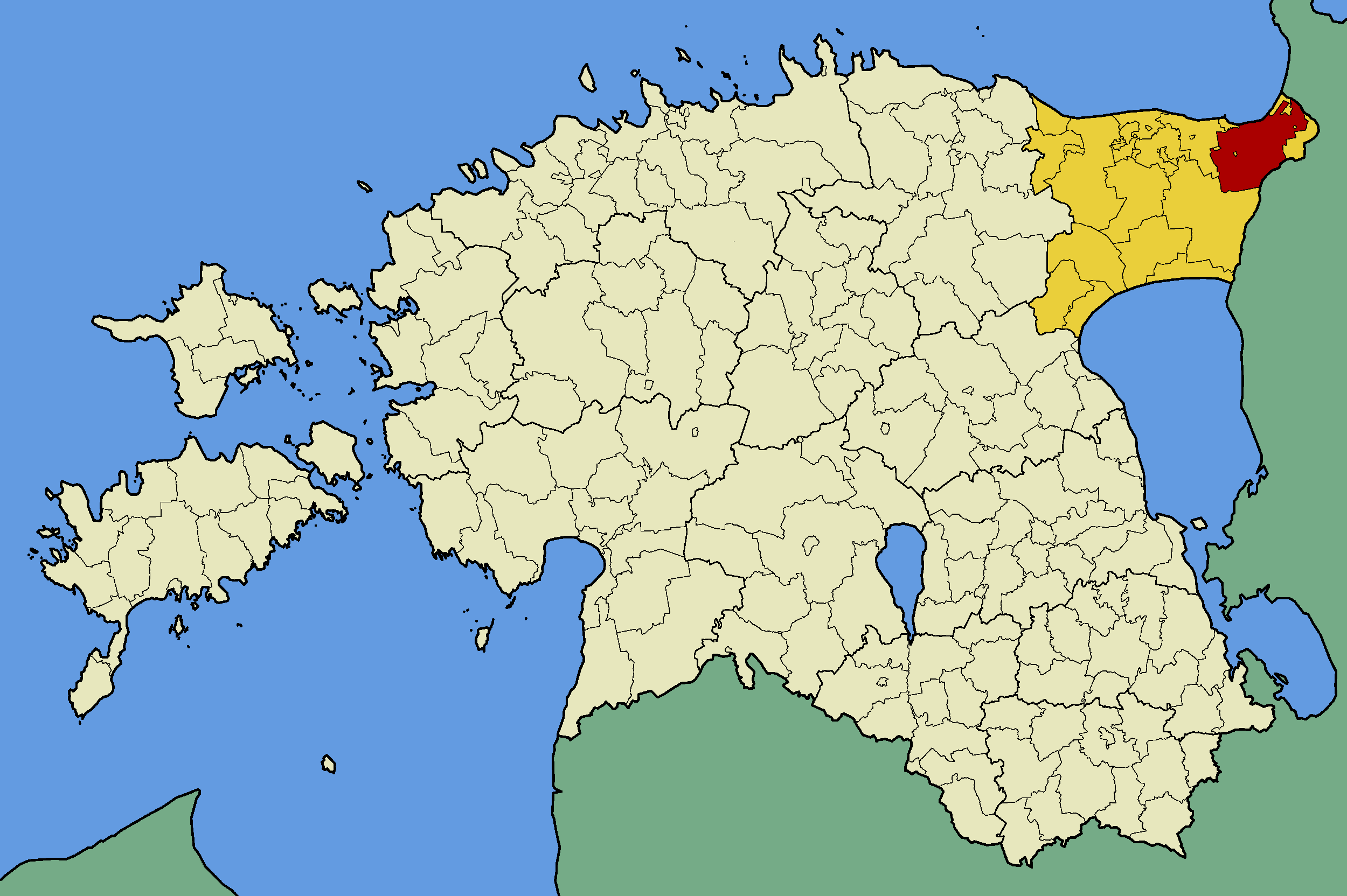 Map of Estonia with borders of municipalities (parishes). Ida-Viru county and Vaivara municipality emphasized.